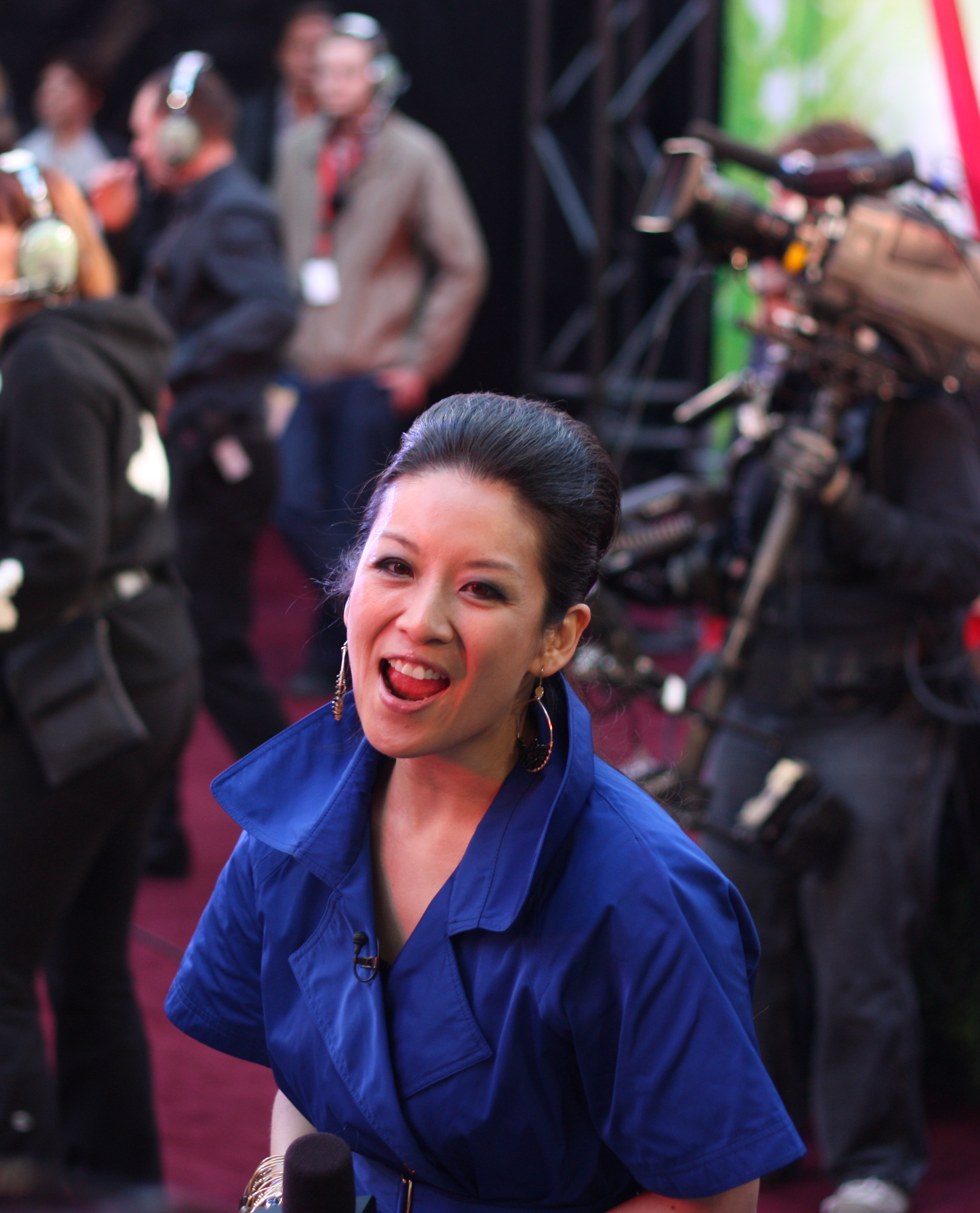 CTV Television eTalk host Elaine "Lainey" Lui on the red carpet at the 2009 Juno Awards in Vancouver, British Columbia, Canada.